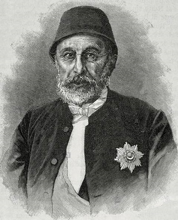 Taken from "A history of all nations from the earliest times" by John Henry Wright published by Lea Brothers & Co. in 1906 Philadelphia and New York. John Henry Wright died in 1908 more than 70 years ago.